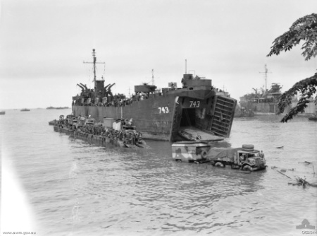 Australian War Memorial (AWM) catalog number OG2544 TARAKAN ISLAND, BORNEO. C. 1945-05-04. LEYTE AND MOROTAI HAD NO MONOPOLY ON THE MUD IN THE PACIFIC BASES, AS RAAF MEN FOUND WHEN THEY LANDED THEIR HEAVY EQUIPMENT. THESE HUGE TRUCKS LOOK HOPELESSLY BOGGED, BUT THEY "GOT OUT OF IT". BEHIND THEM IS LANDING SHIP, TANK (LST), SERIAL NO. 743.